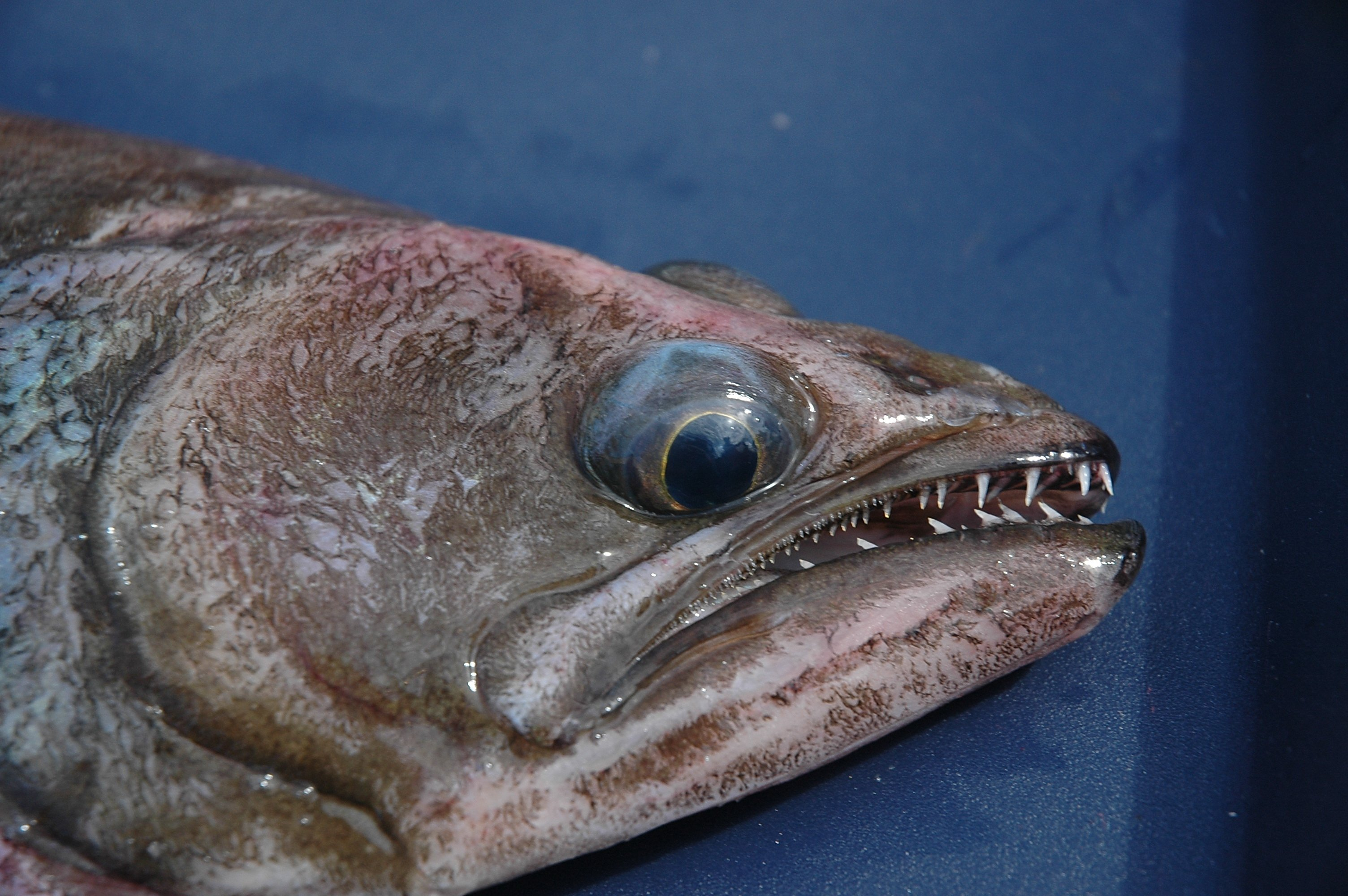 Atheresthes stomias